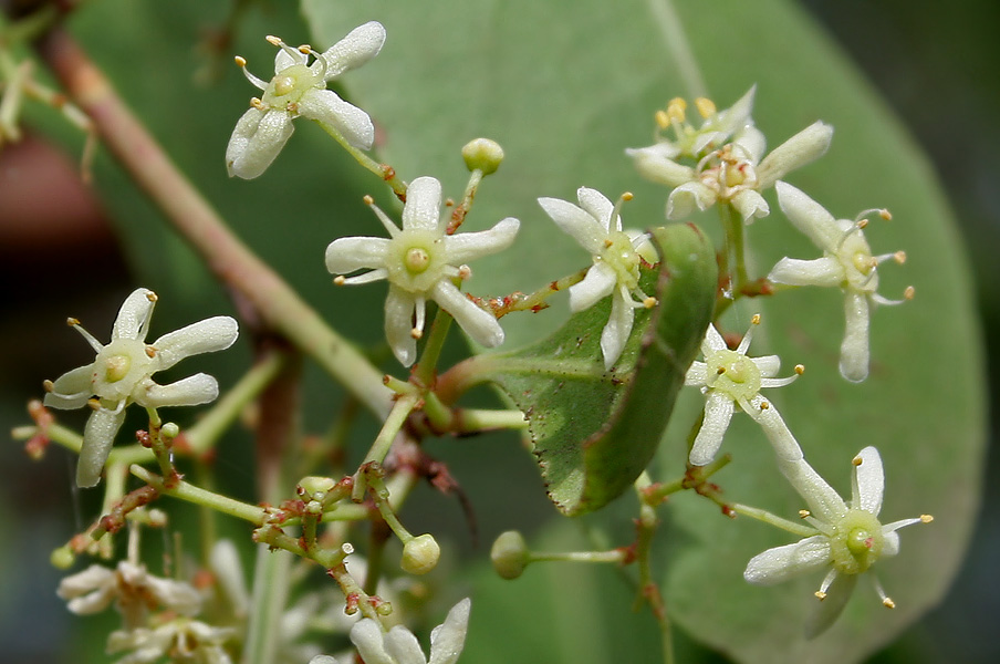 Gymnosporia montana (Roth) Benth. at Deer Park in Shamirpet, Rangareddy district, Andhra Pradesh, India.